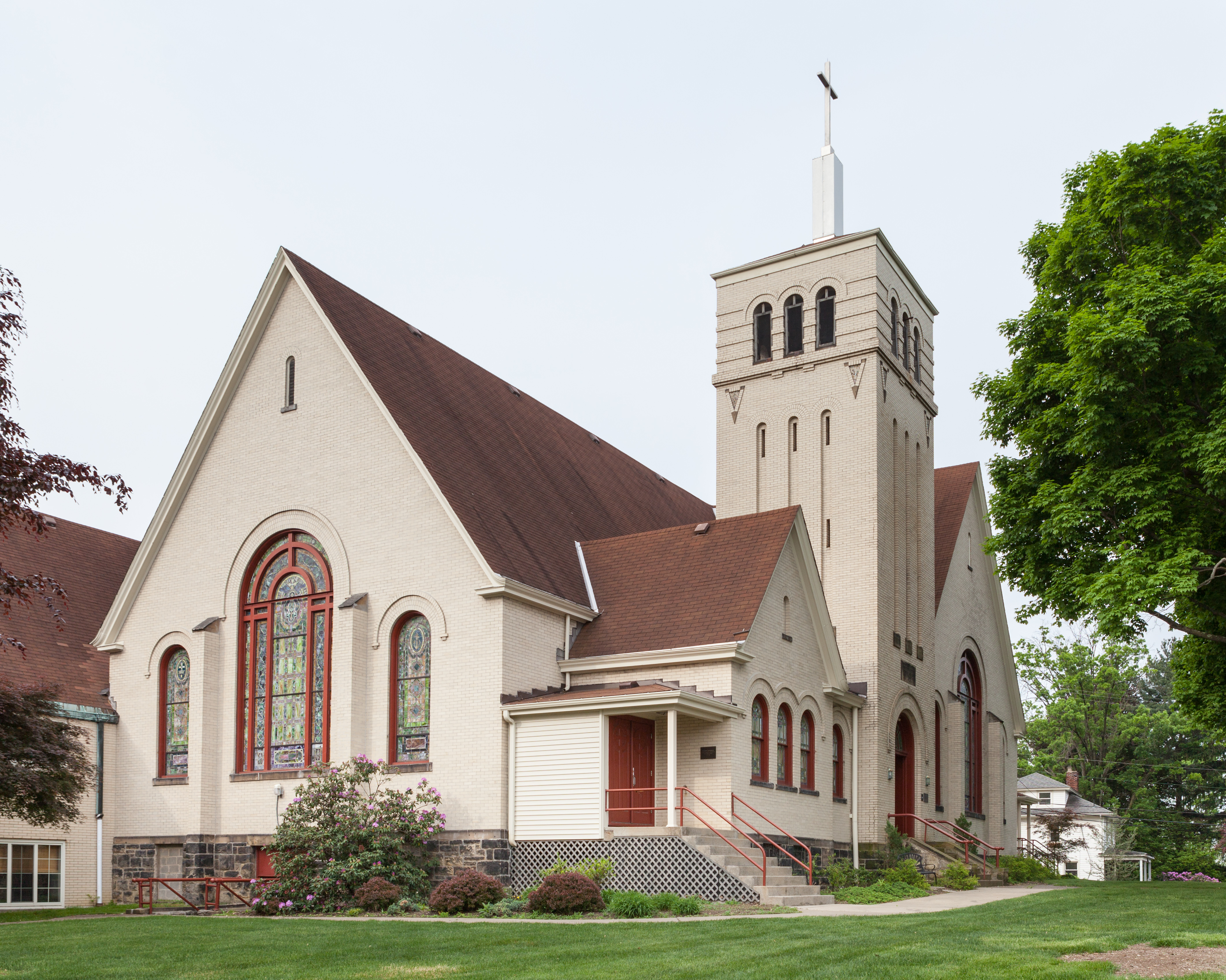 Bethel Presbyterian Church in Bethel Park, Pennsylvania. This is the current 1910 building of the church that traces its history back to 1776. Two prior buildings, dating back to 1826, existed near the location of the current building.